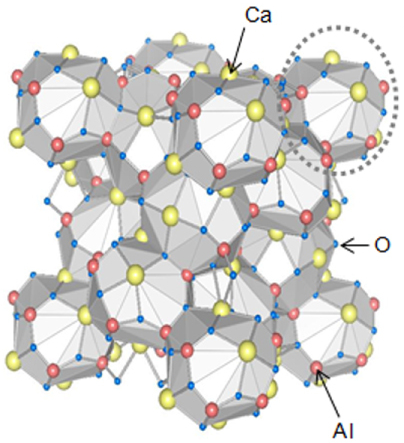 Crystal structure of 12CaO·7Al2O3 (C12A7)